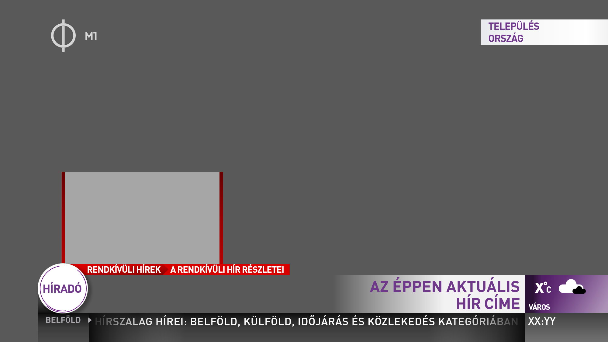 The graphics of M1, Hungarian public news channel